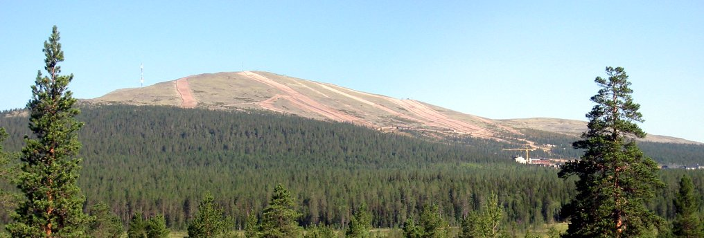 Ylläs mountain in Finnish Lapland.